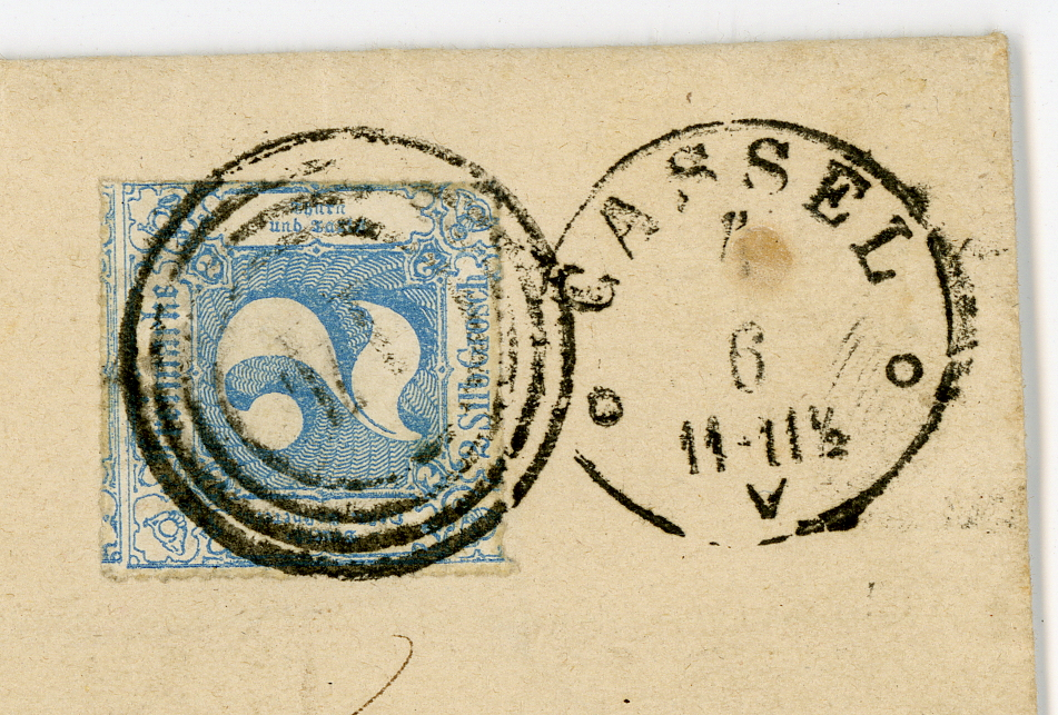 Stamp of Thurn and Taxis, 2 SilberGroschen, issue 1865, cancelled 4-rings "14" and circle on a letter to Frankfurt a/Main.